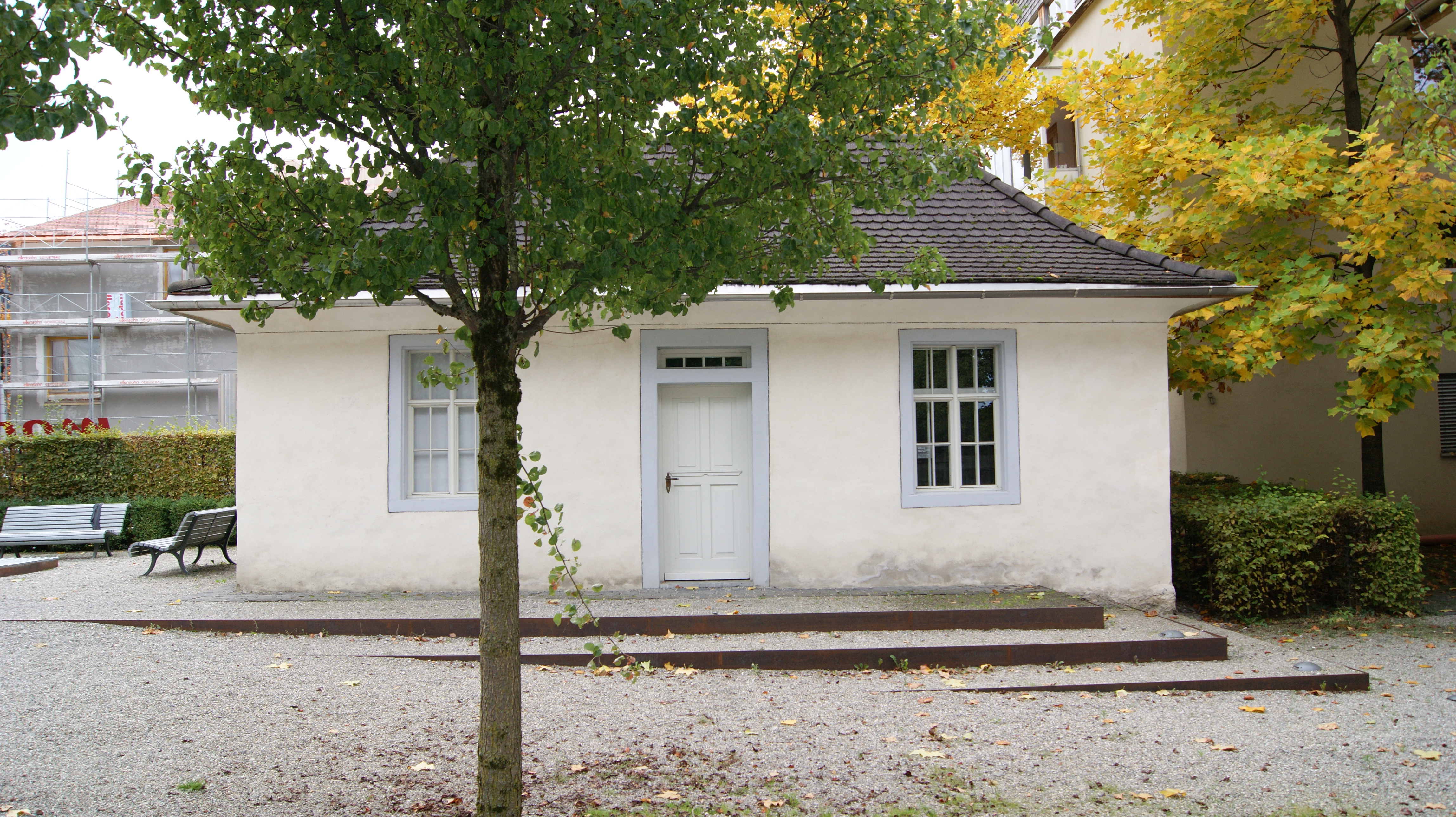 Hohenems, Schulgasse 1, Mikwe (Jewish ritual bath).